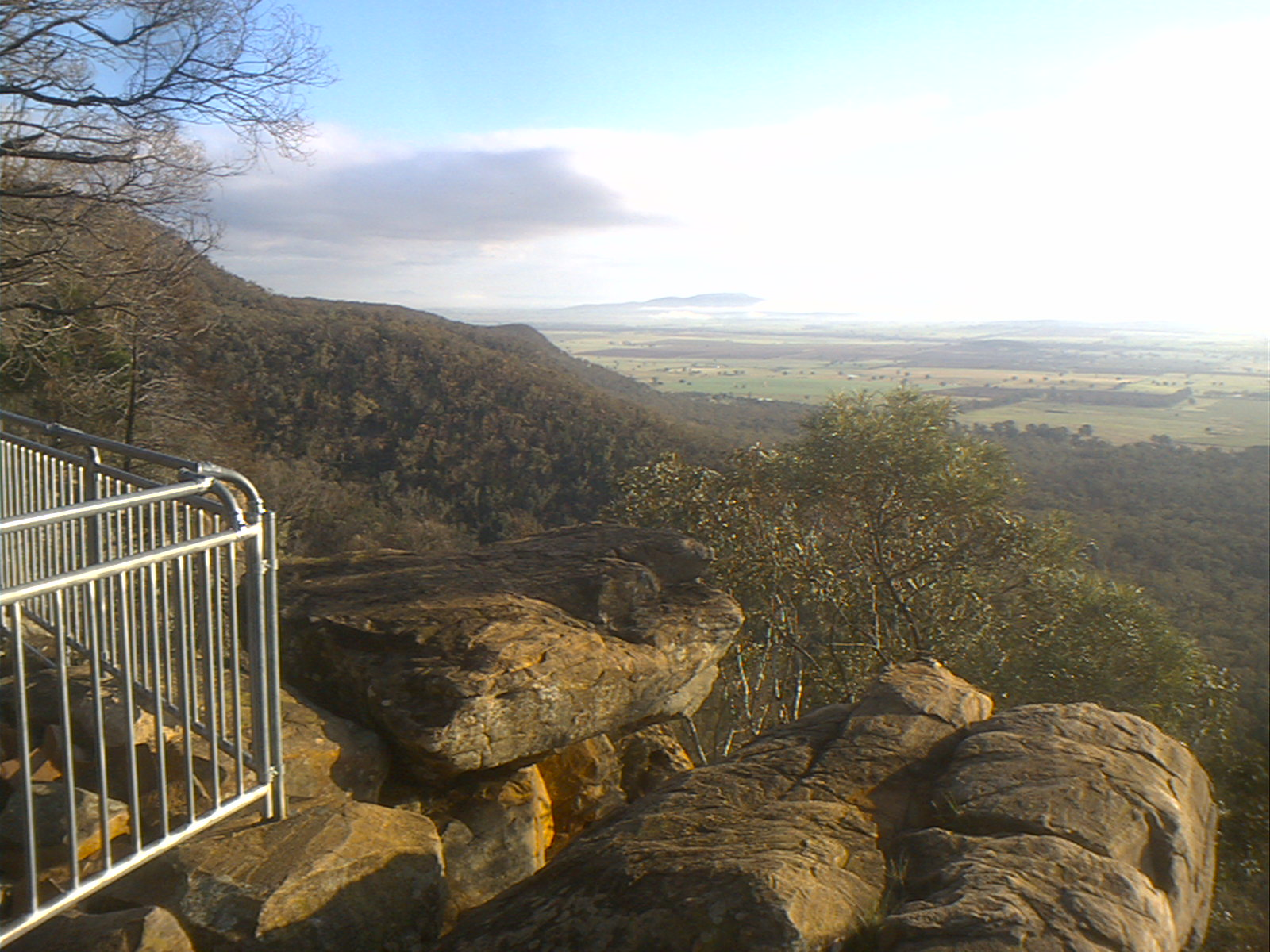 Looking North East from Peregrine Lookout above Holy Camp in the Weddin Mountains National Park. Note the strong fence that doesn't actually fence you from anything.